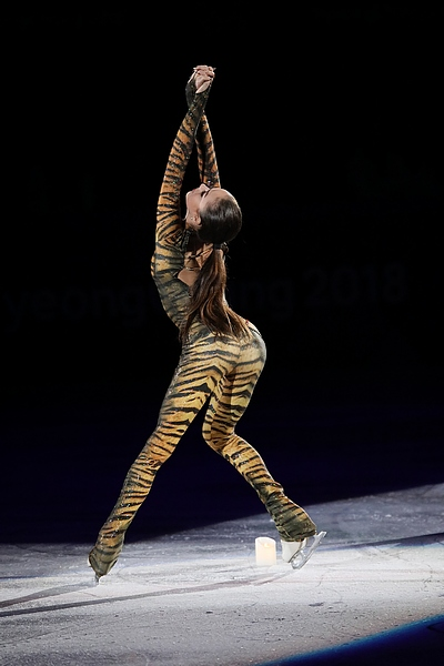 Alina Zagitova at the 2018 Winter Olympic Games - Gala Exhibition